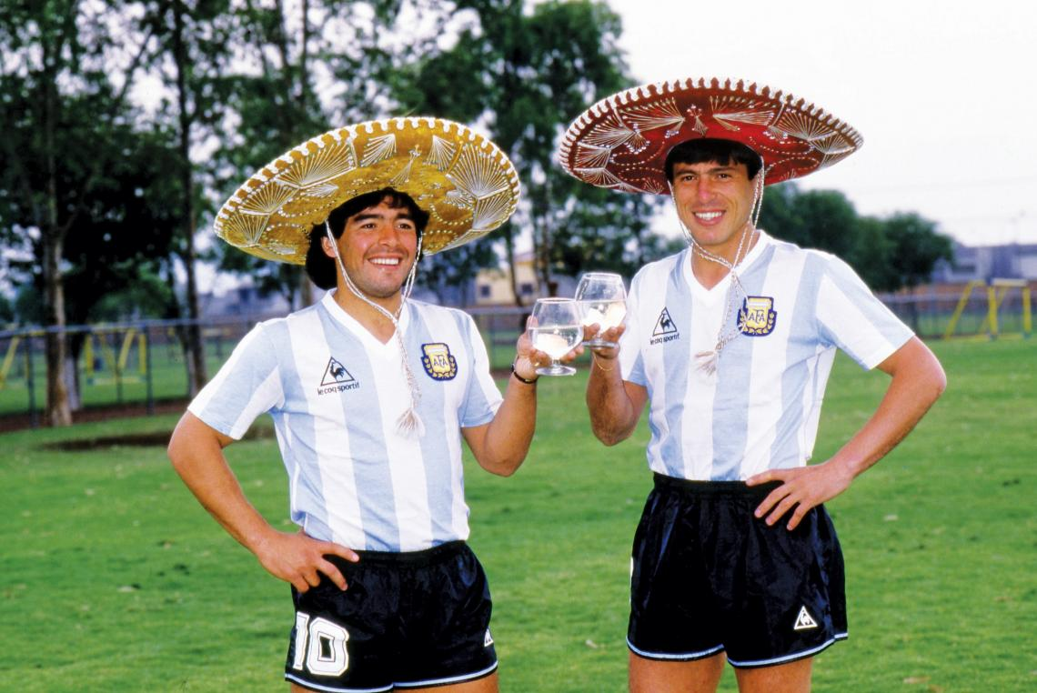 Diego Maradona and Daniel Passarella prior to the FIFA World Cup held in Mexico.